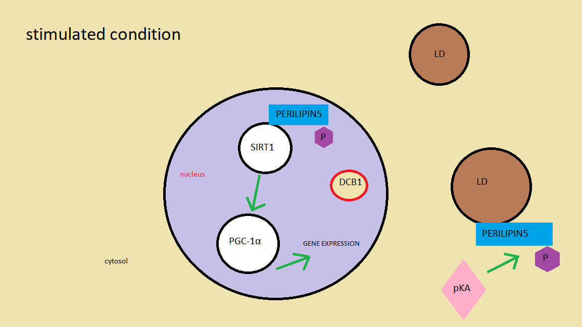 When needed, Protein Kinase A phosphorylate perilipin 5, allowing it to enter the nucleus, where it displaces DCB1, giving way to the necessary interactions to change gene expression